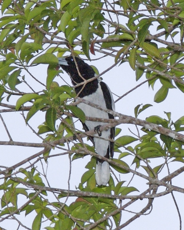 Hooded Butcherbird Cracticus cassicus Biak, Papua, Indonesia 15th. January 2008 Distribution: _Q0S6726